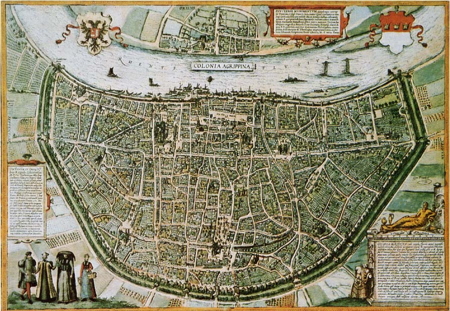 Map of Cologne from the middle age